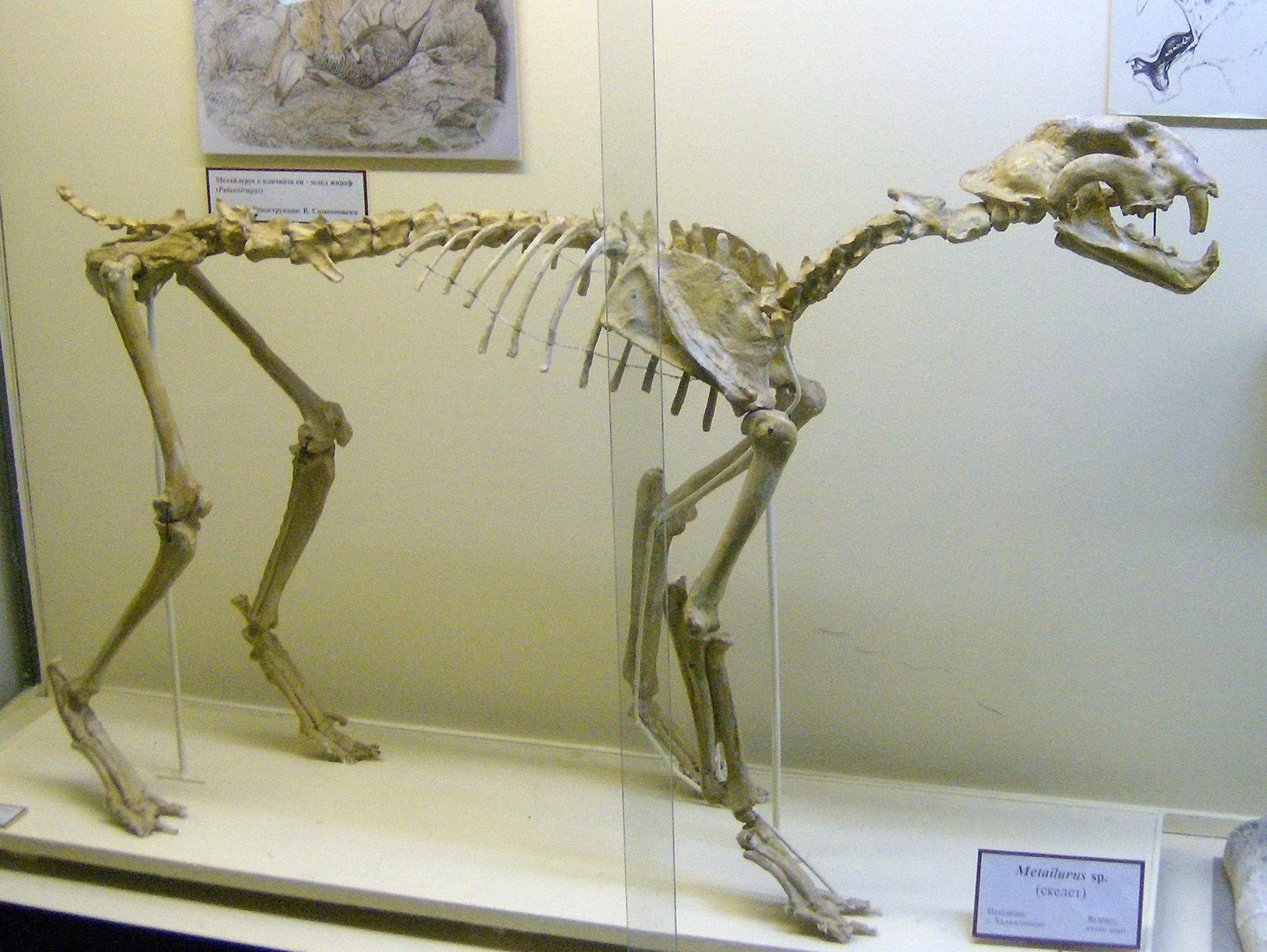 Metailurus (Metailurus major), Asenovgrad Paleonthological Museum